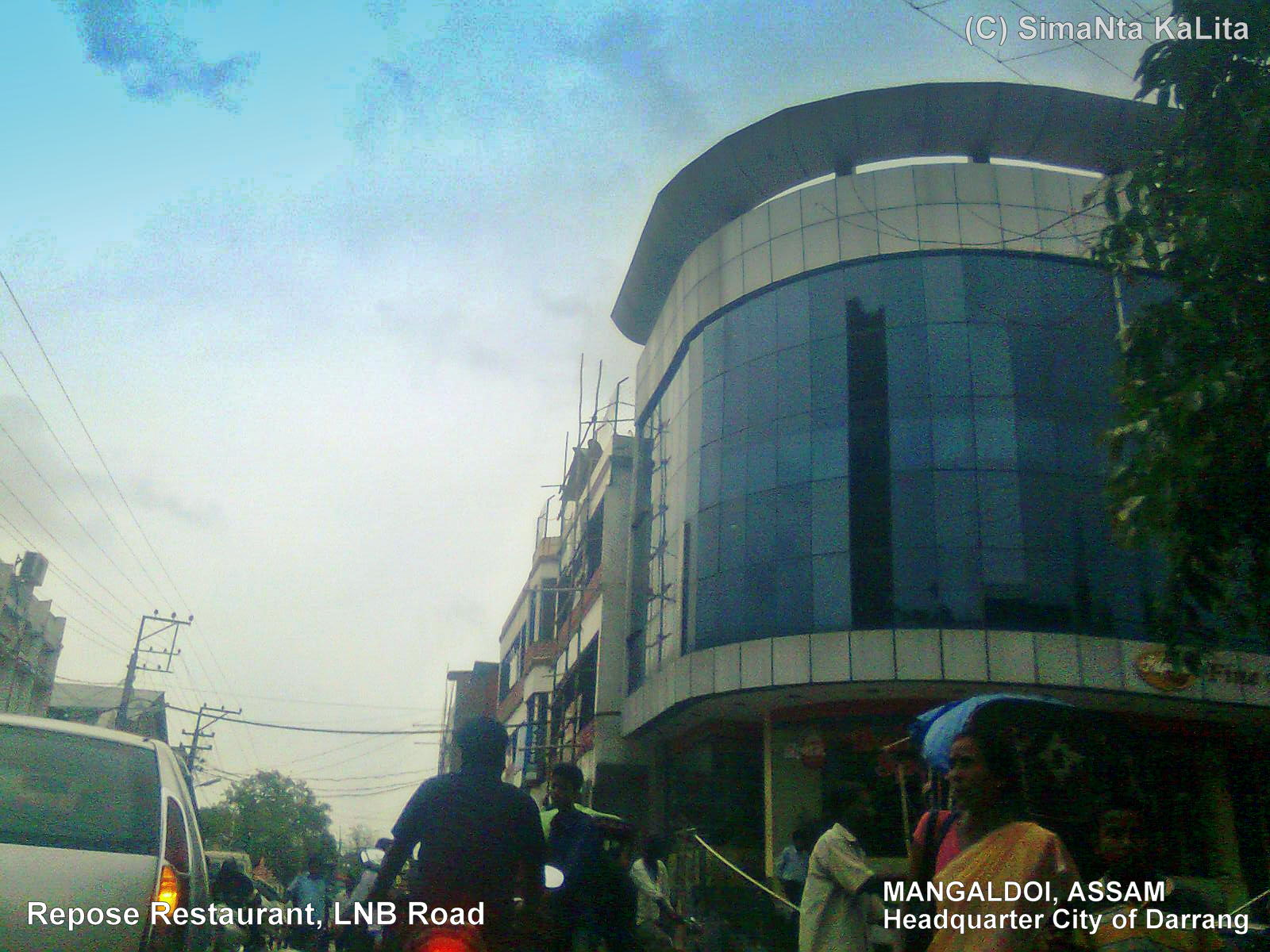 Photo of Mangaldoi Repose